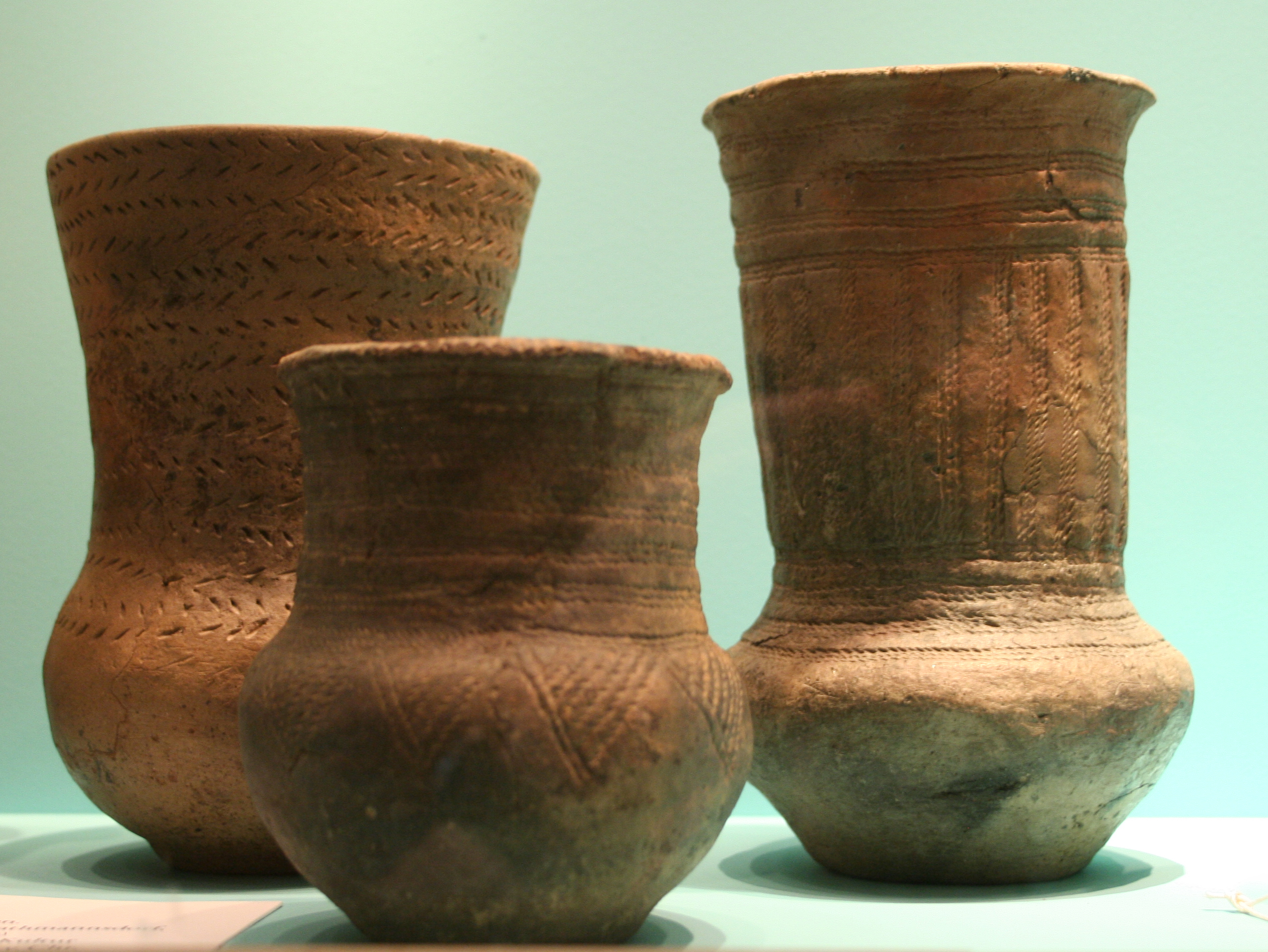 Museum für Vor- und Frühgeschichte (Museum of prehistory and early history), Berlin